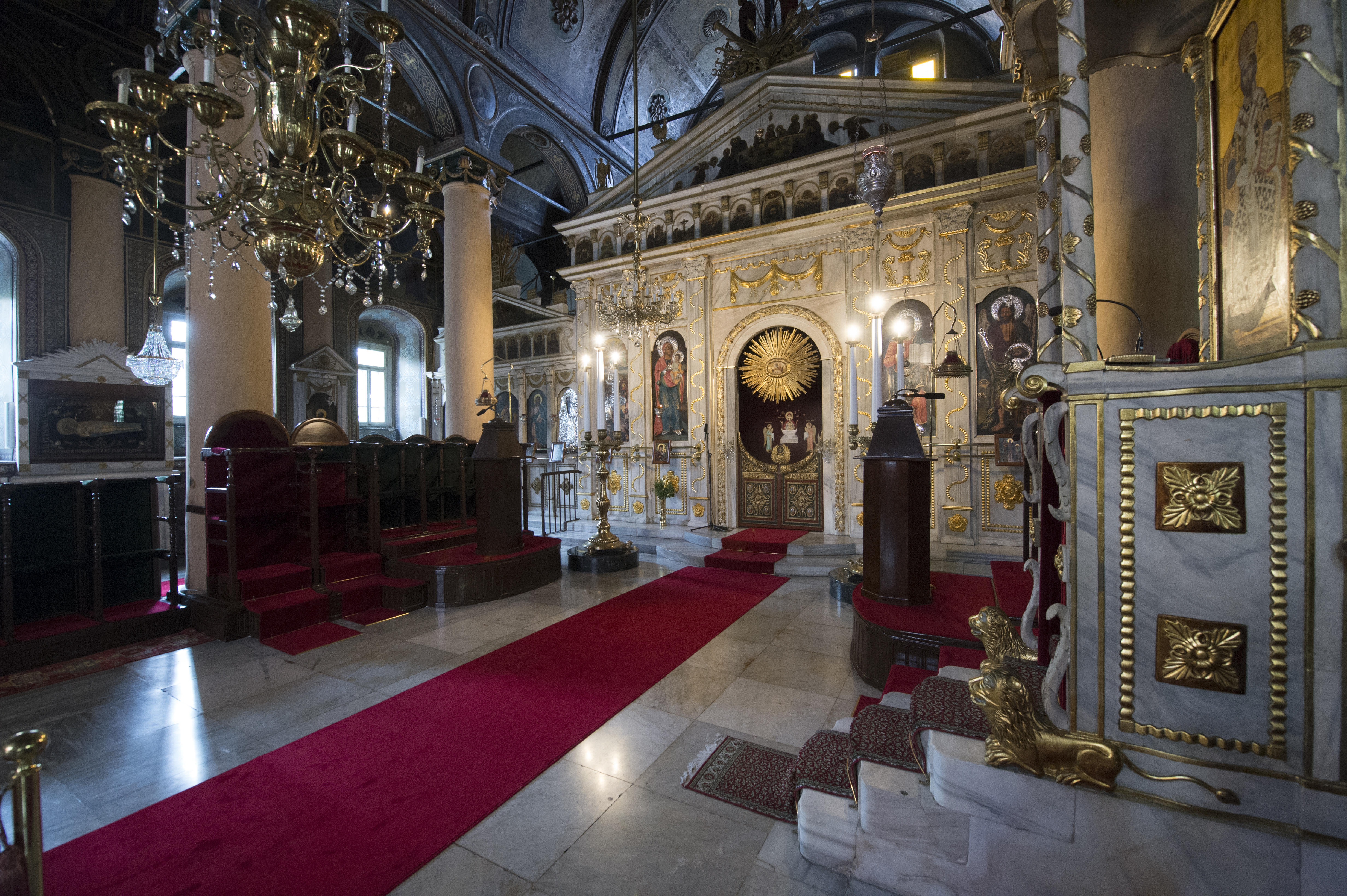 Part of the interior in a wide angle shot